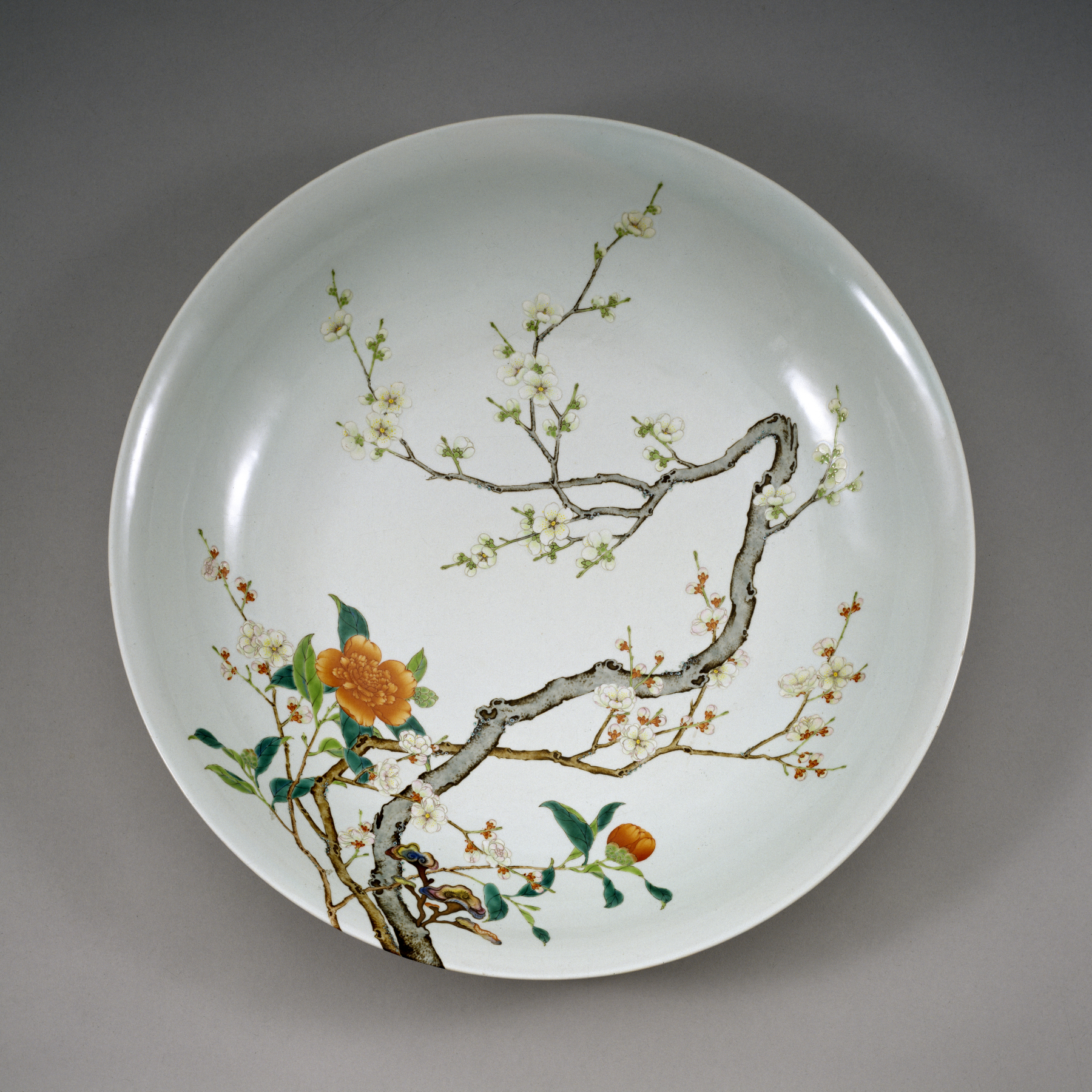 The flowering branch of Prunus is painted in Famille Rose overglaze enamel. This magnificent dish belongs to a set made for use in the palace.